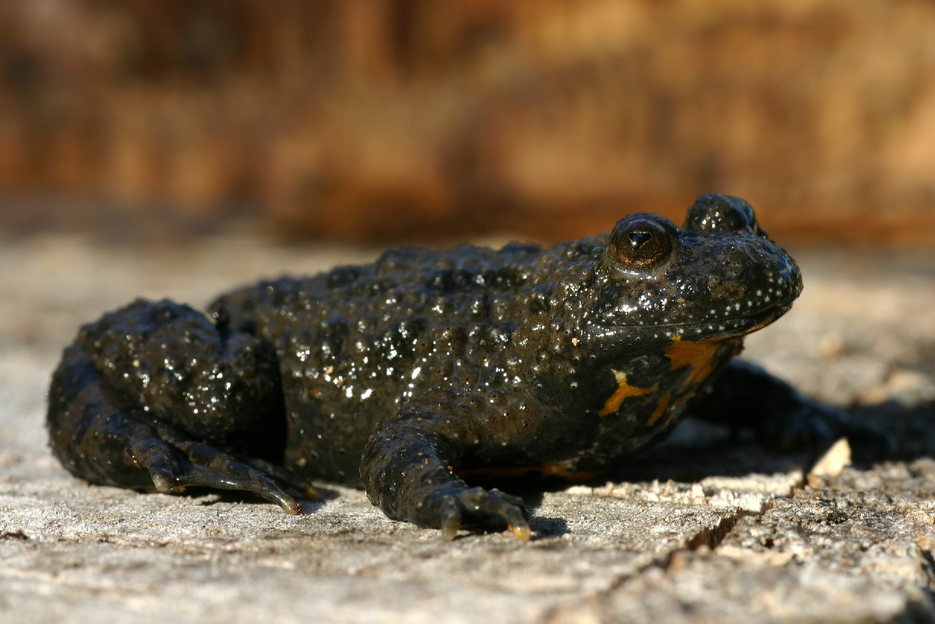 Yellow-bellied toad (Bombina variegata). Photographed near Gruberau (Lower Austria).